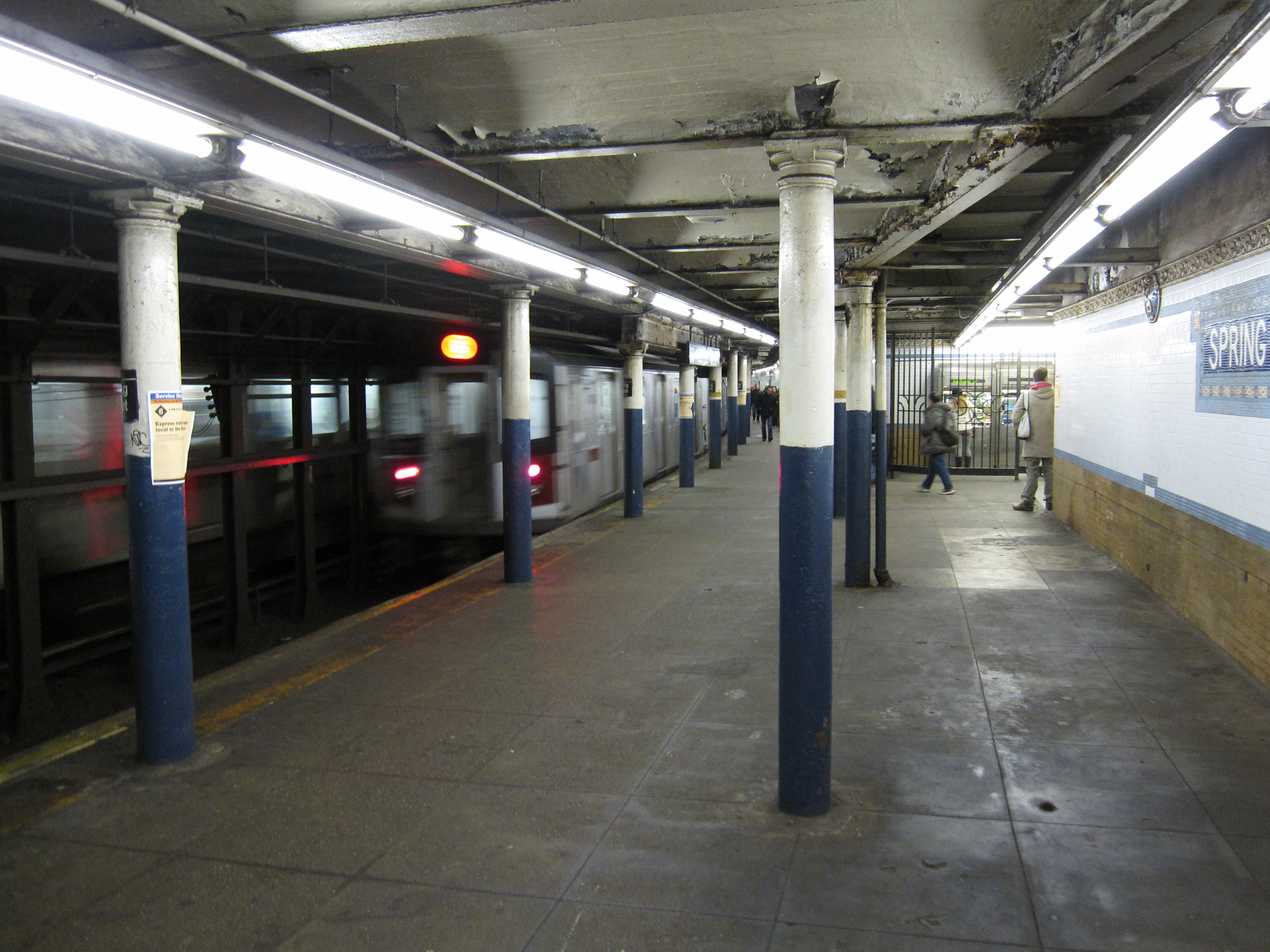 Spring Street (IRT Lexington Avenue Line)